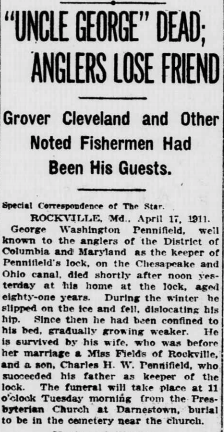 This is the first paragraph of the obituary of George Washington Pennifield, avid fisherman and long-time keeper of Lock 22 on the C&O Canal. The lock is now known as the Pennyfield Lock--a misspelling of Pennifield's name.